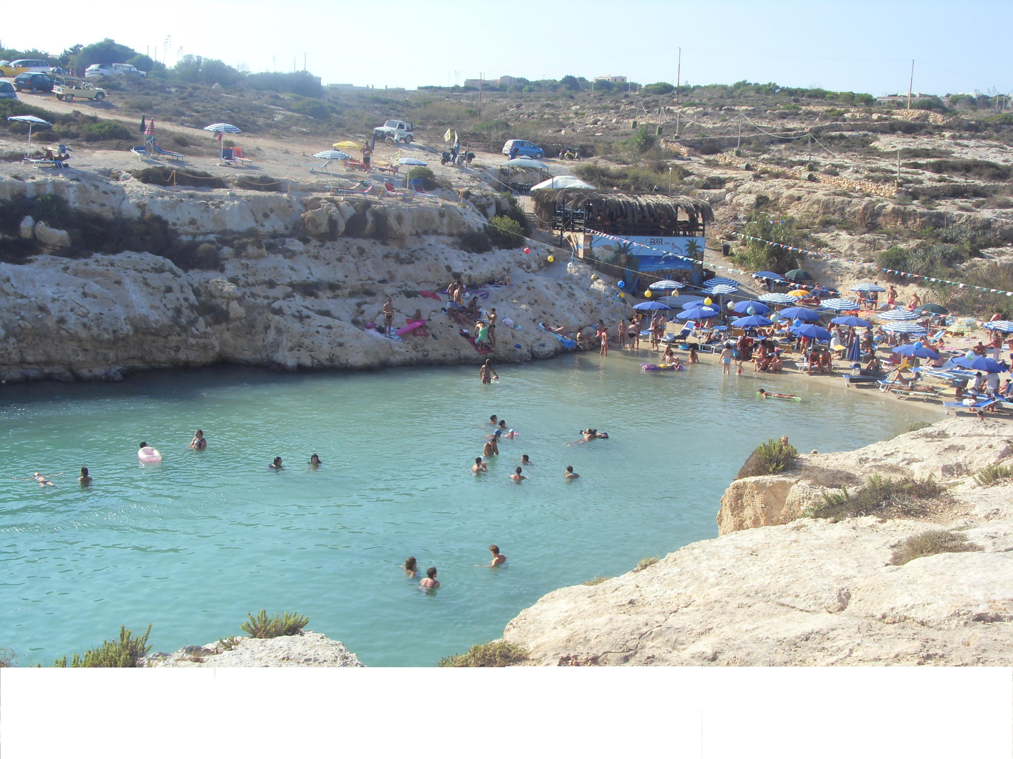 Calamadonna Beach, Lampedusa (ITALY)